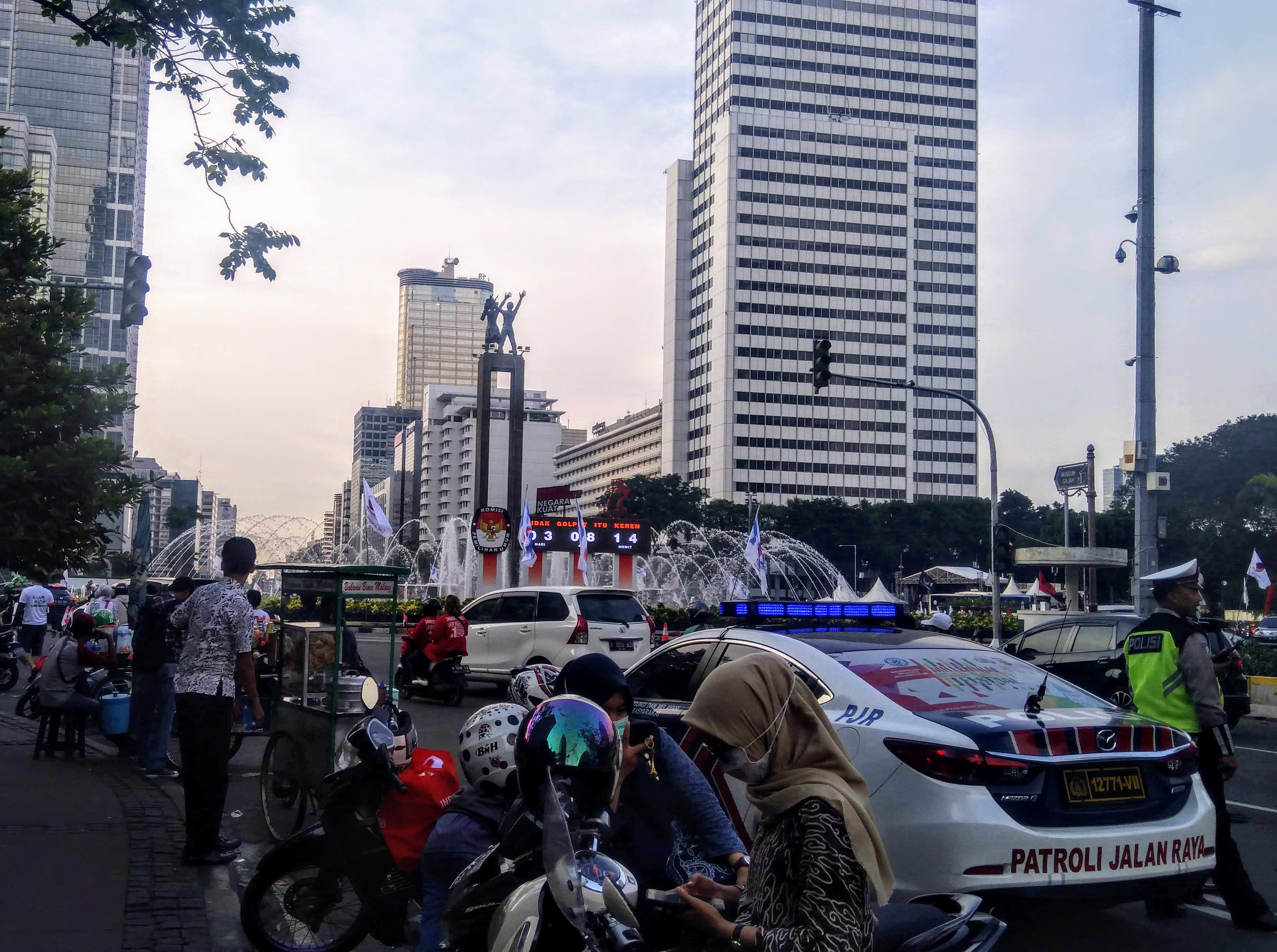 Selamat Datang Monument with 2019 Indonesian Election countdown, this particular area was crowded with supporters of both presidential candidates and their supporting parties.